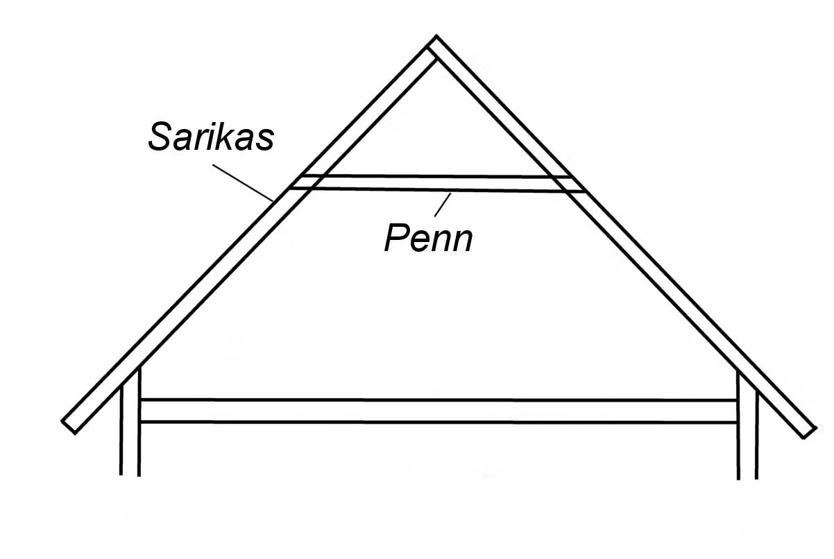 Scheme in Estonian showing rafter (sarikas) and collar (penn)